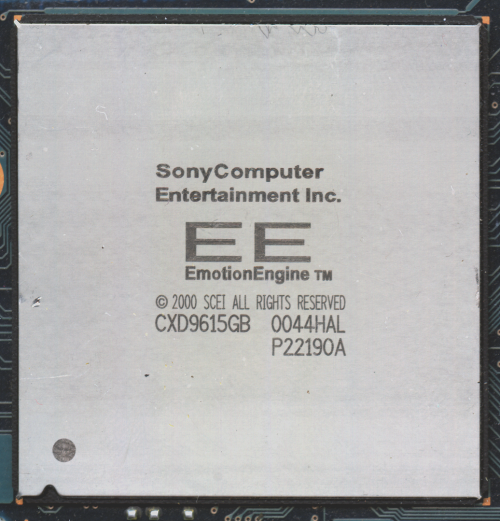 IC photo